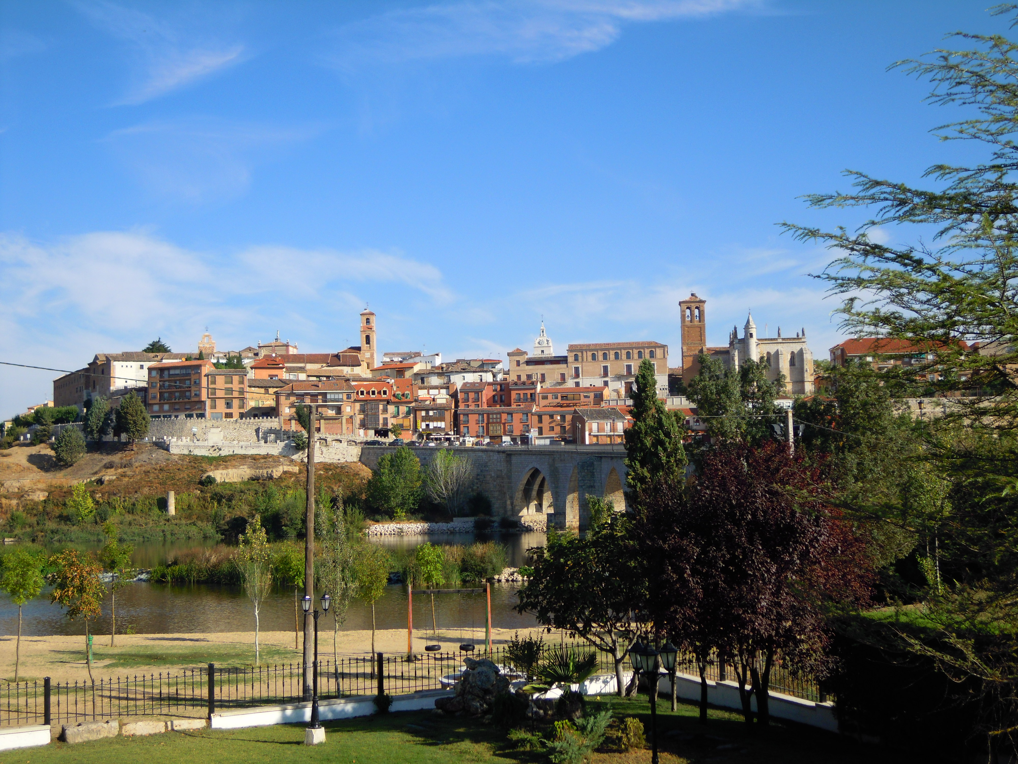 The southern approach to the town of Tordesillas, Castile and León, Spain.